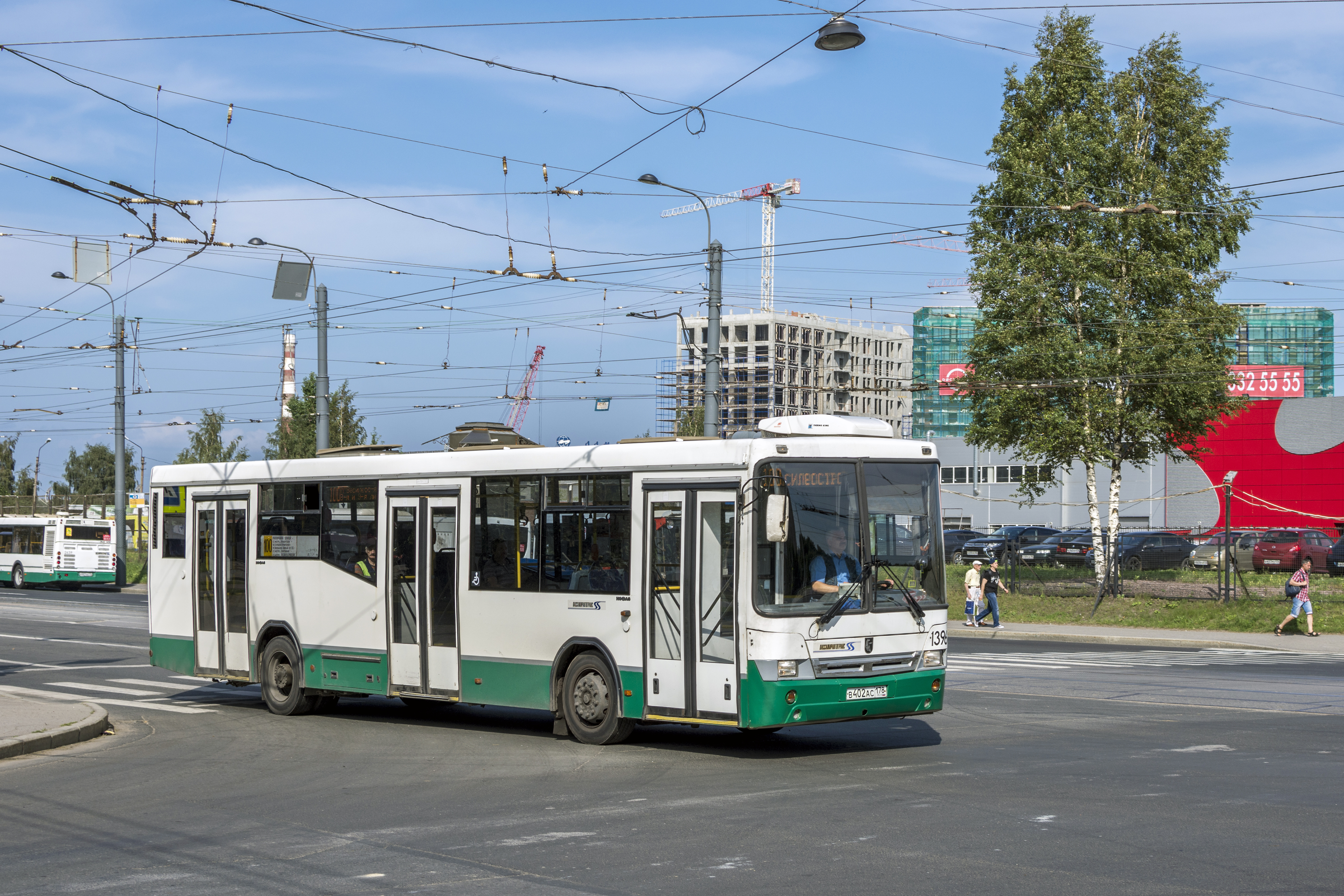 Bus NefAZ-5299-30-32 in Saint Petersburg